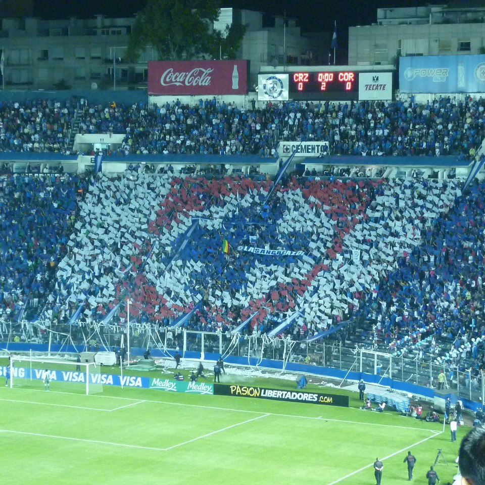 CruzAzul-Corinthians